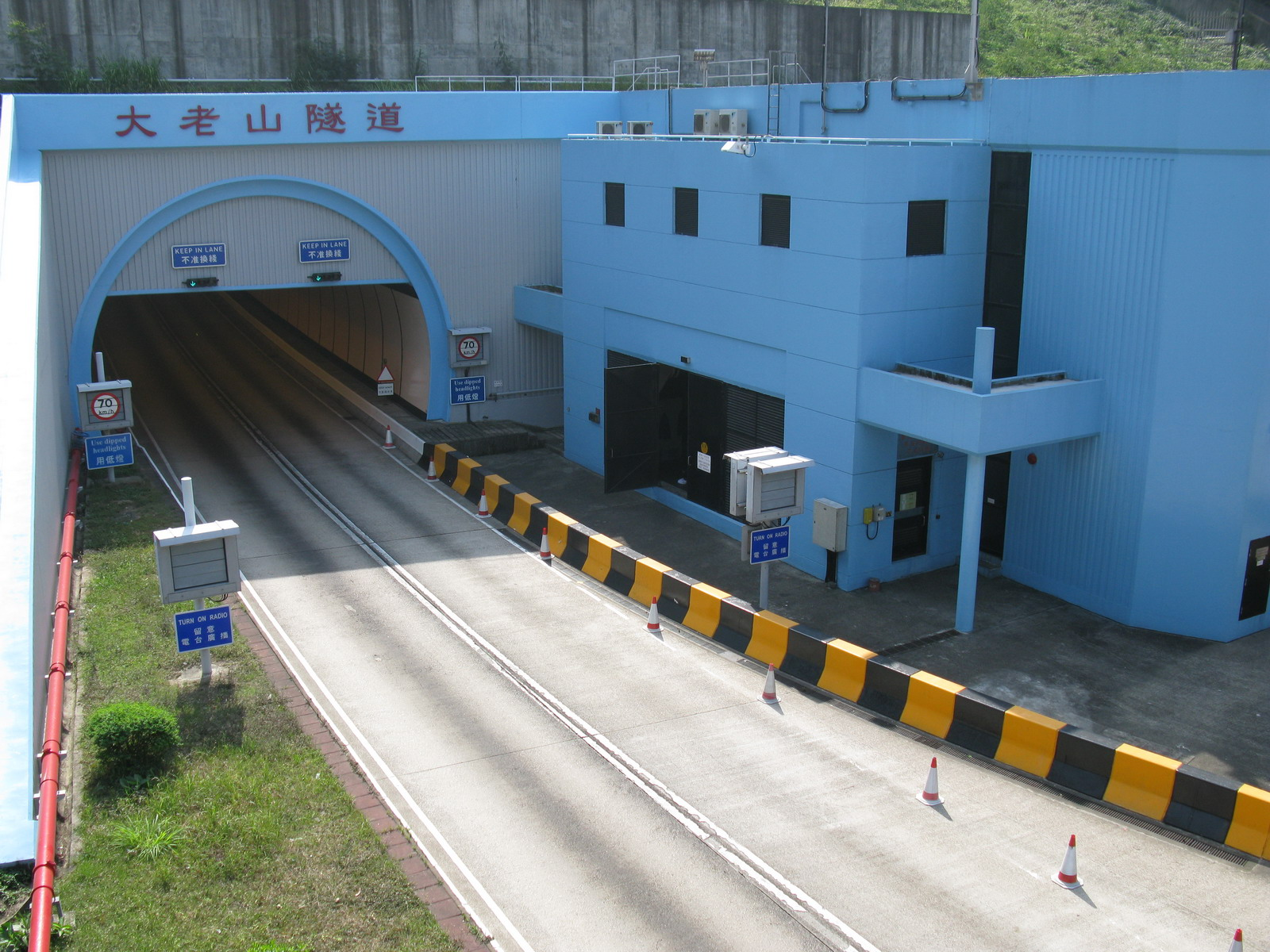 大老山隧道-沙田入口 Tate's Cairn Tunnel Sha Tin Side